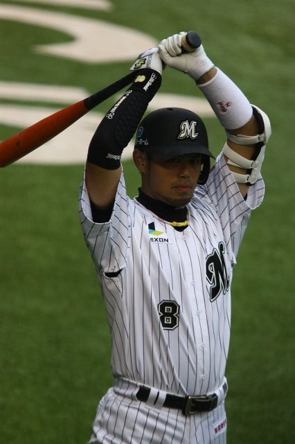 Toshiaki Imae, infielder of the Chiba Lotte Marines.